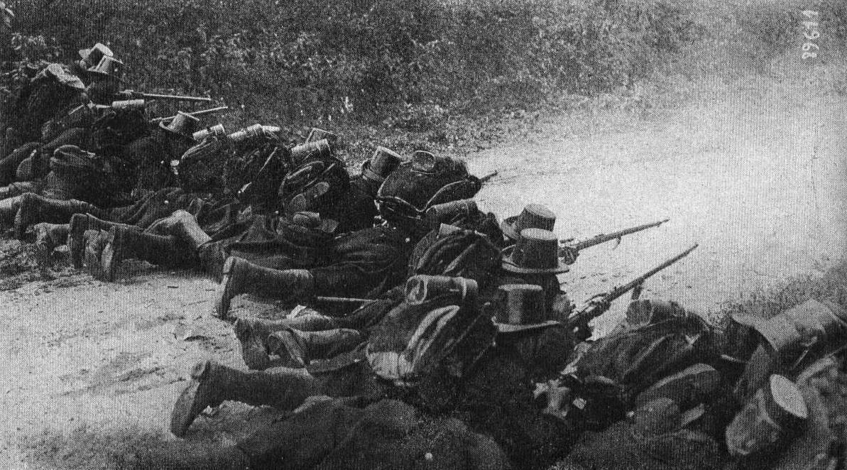 «Invaded Belgium has kept its sang-froid». Belgian forces in Liège.